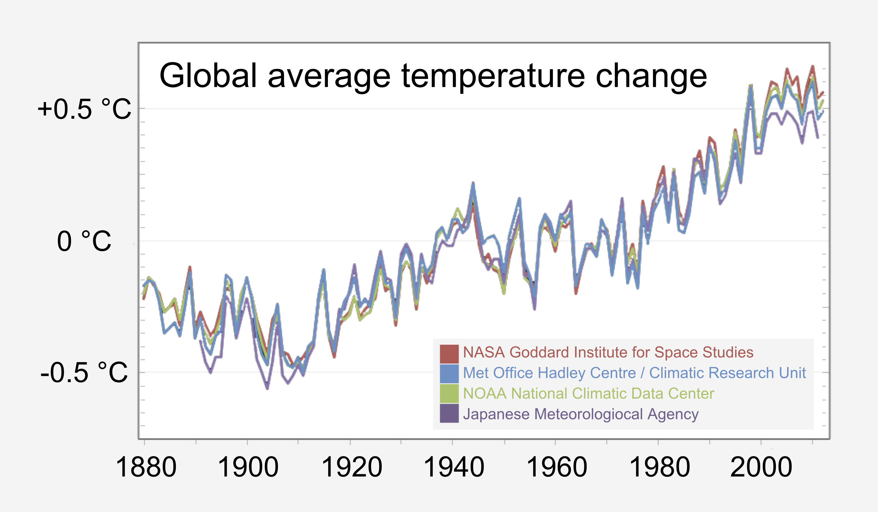 Temperature data (in degrees Celsius) from four international science institutions. All show rapid warming in the past few decades and that the last decade has been the warmest on record. Data sources: NASA's Goddard Institute for Space Studies, NOAA National Climatic Data Center, Met Office Hadley Centre/Climatic Research Unit and the Japanese Meteorological Agency. (Graph produced by Earth Science Communications Team at NASA's Jet Propulsion Laboratory | California Institute of Technology)